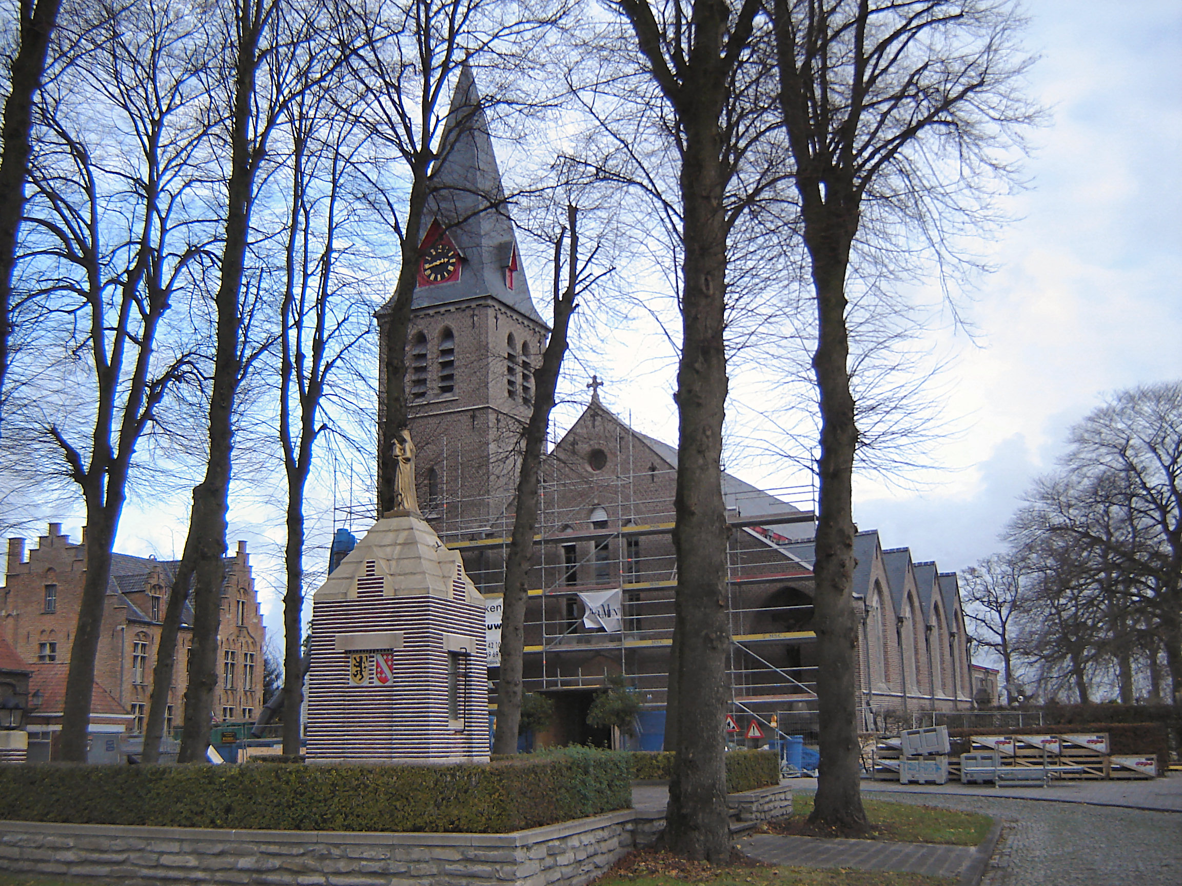 Church of the Immaculate Conception in Ver-Assebroek. Assebroek, Brugge, West Flanders, Belgium.